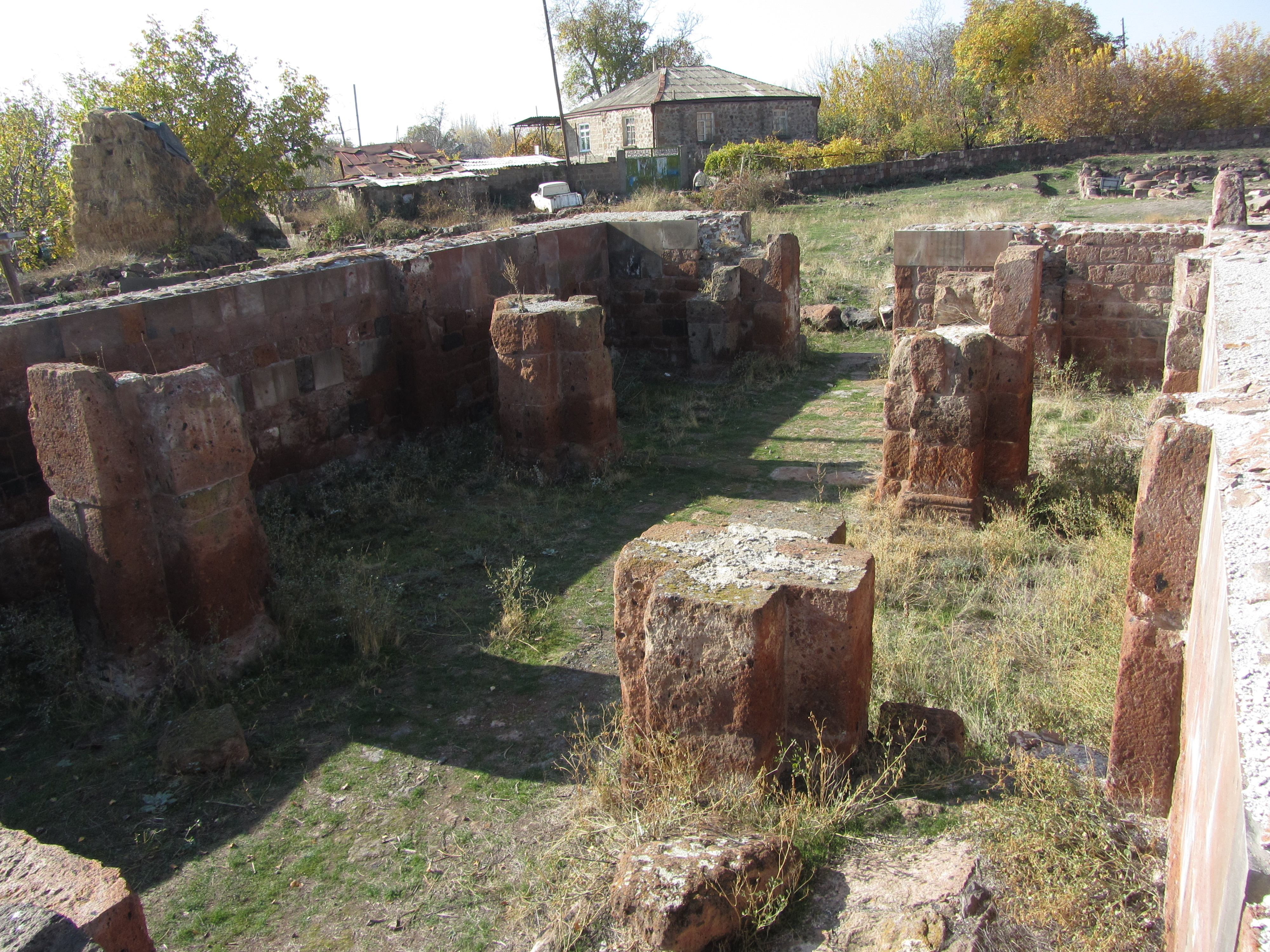 Aruch Complex, Church (6-7c)